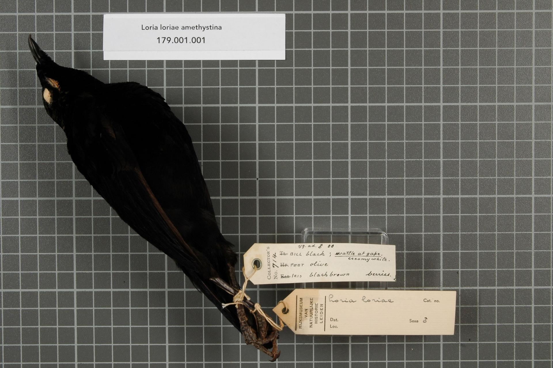 Loria loriae amethystina Stresemann, 1934